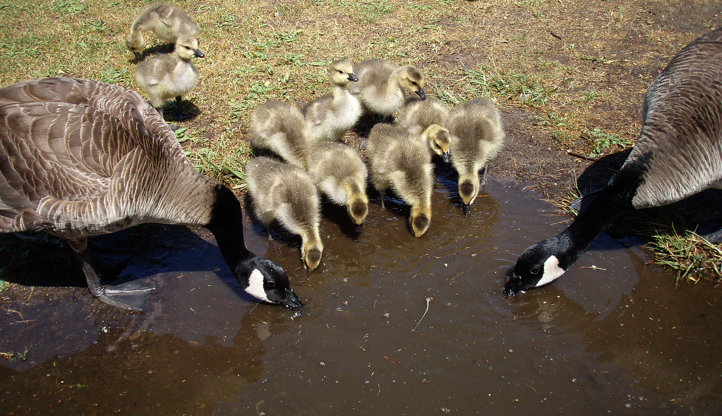 Canada geese and goslings